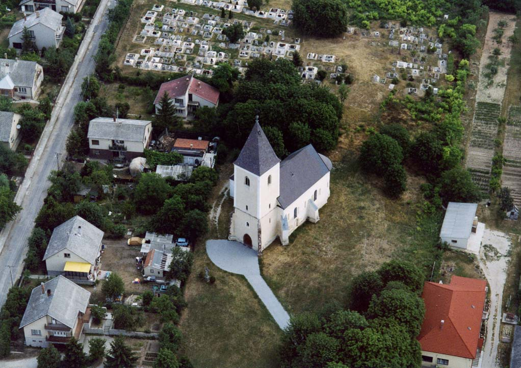 Szentkirályszabadja, Hungary, aerial photography